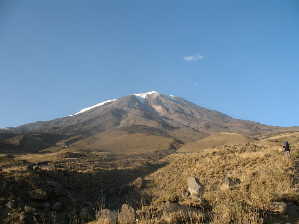 Mount Ararat. View on top from 2700 m.